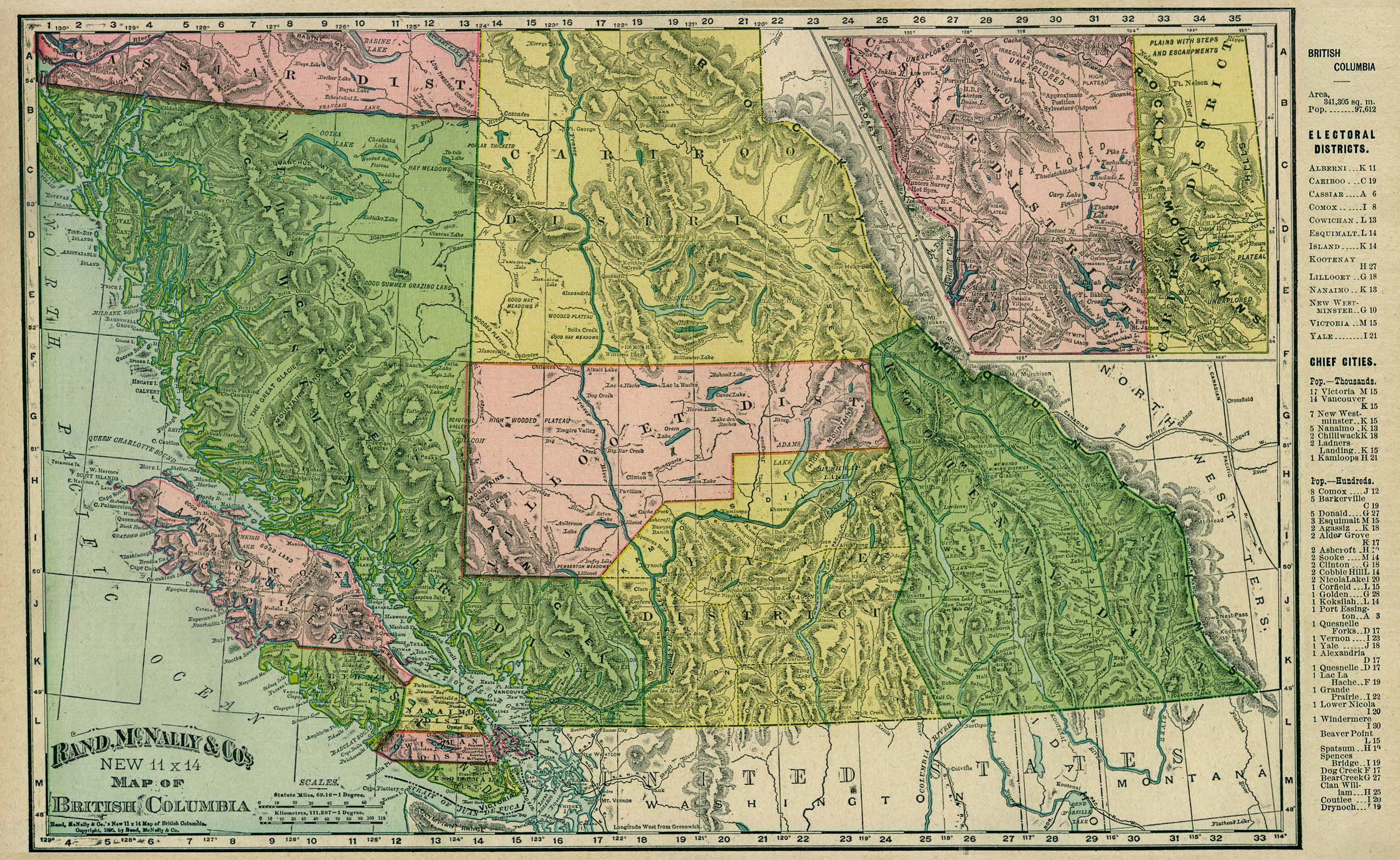 Map of British Columbia, 1896, Rand, McNally & Co.